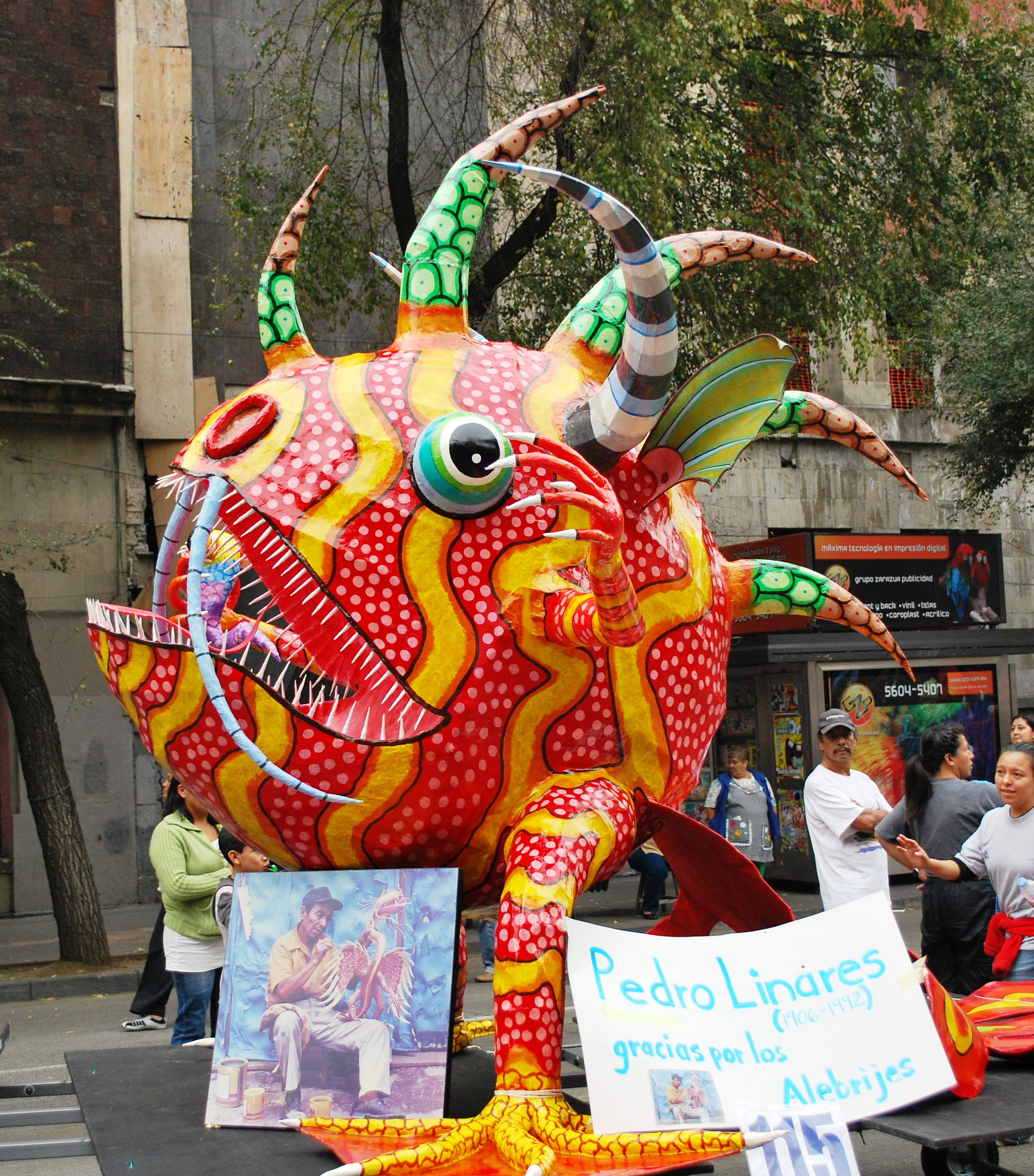 Michin Rojo at the Juarez Street portion of the parade. Visible is a homage to Pedro Linares, the creator of alebrijes.